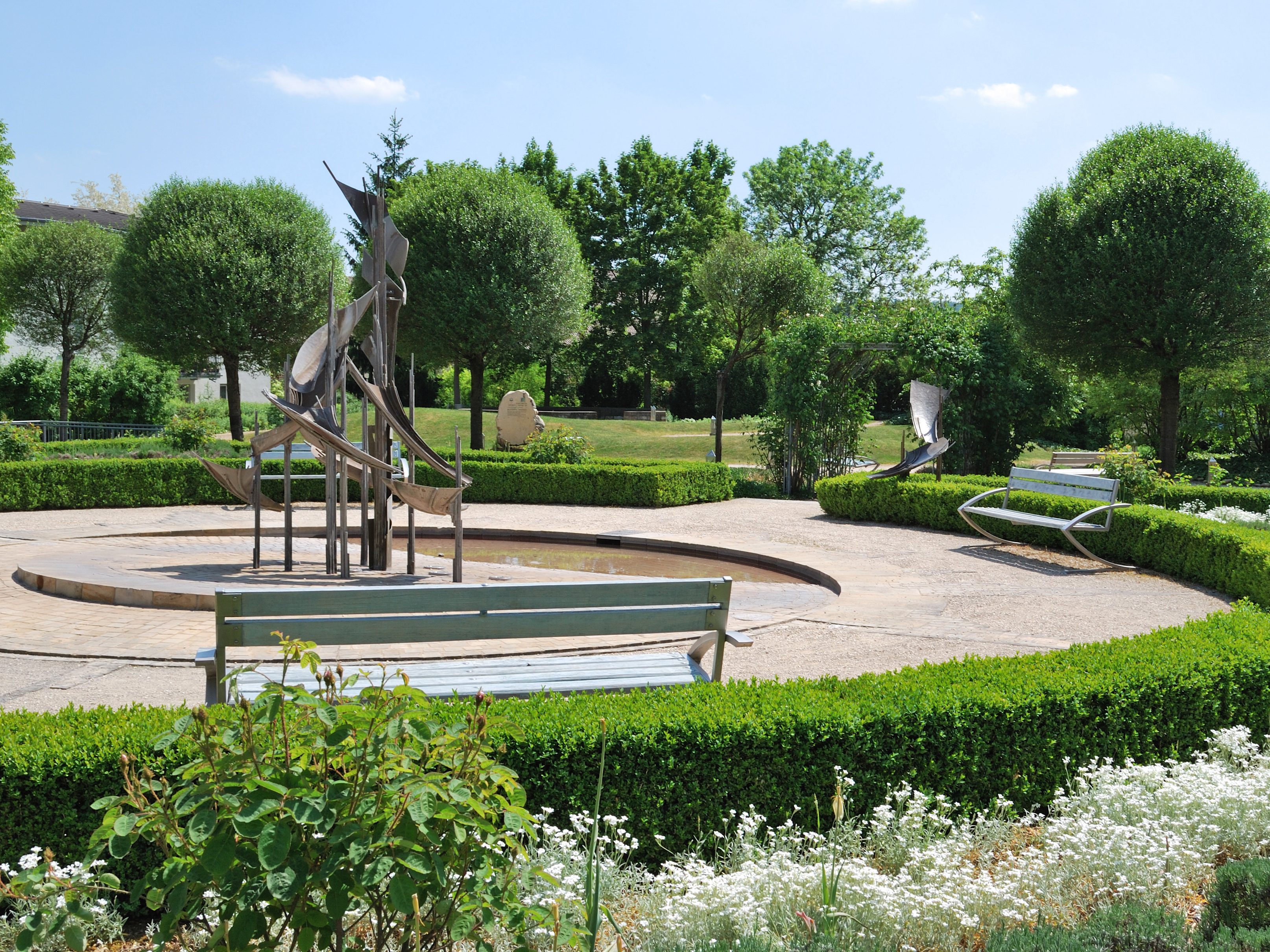 The spring in the Saalgarten of the protestant Brüdergemeinde in Korntal.